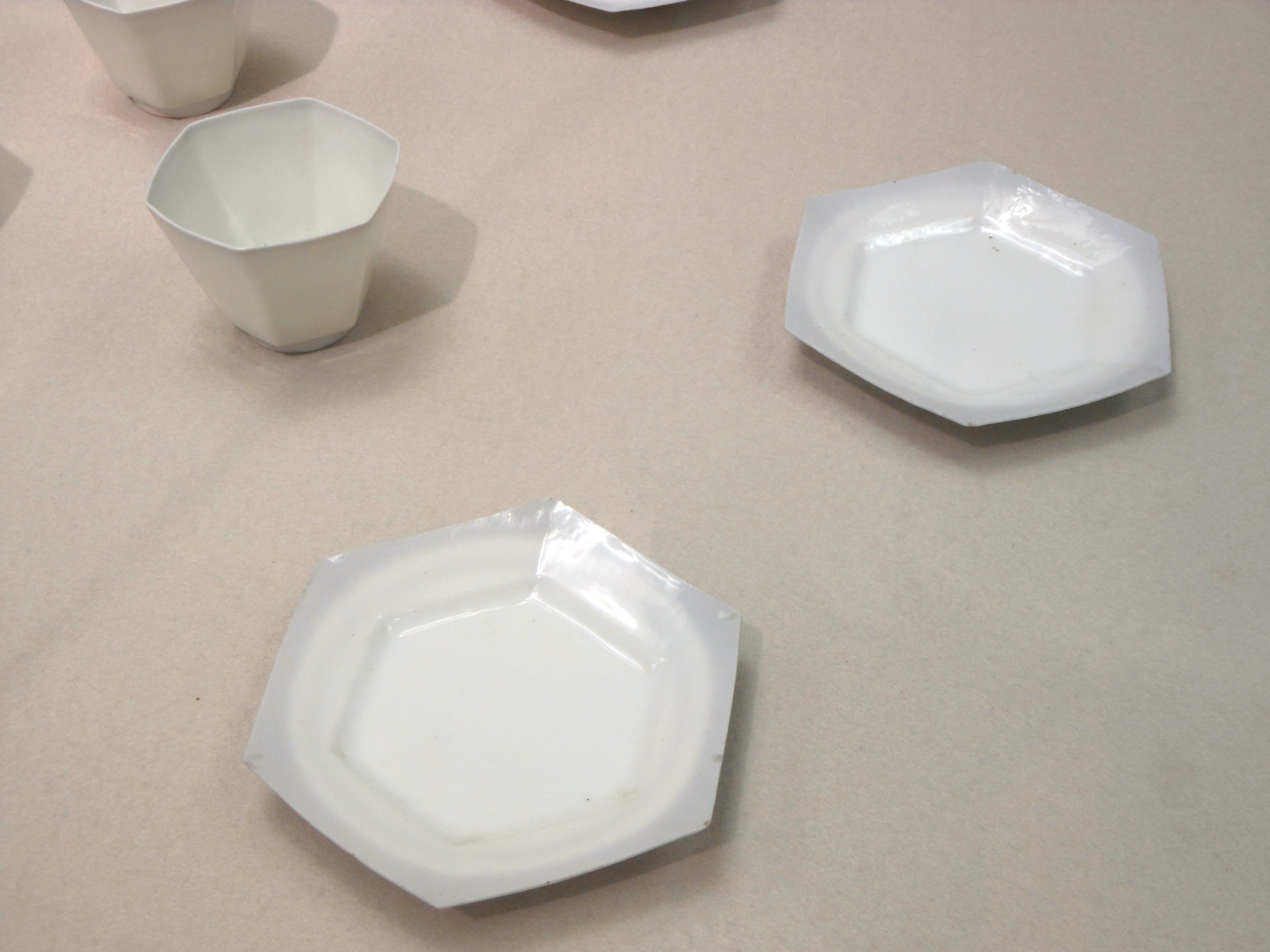 Name:Hakuji-Rokkaku-Wan and Hakuji-Rokkaku-Zara ( White porcelain hexagonal bowls and dishes.) Collection No.:7705-20,7706-20 Era:1840-1870s Made in:Arita, Hizen Collected, displayed by:Kyushu Ceramic Museum Donated by:Tashiro family of Arita